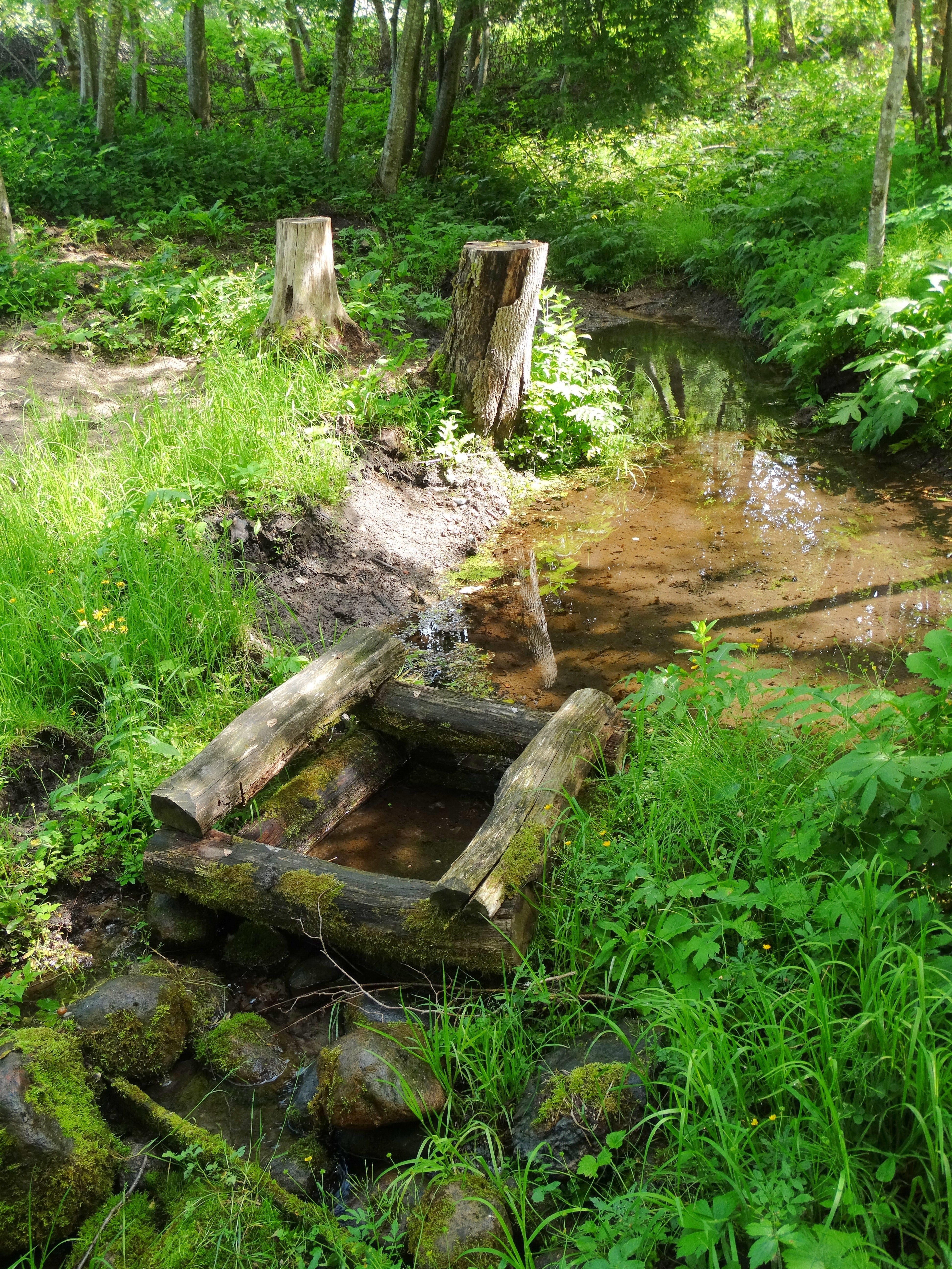 Spring by Betygala I hillfort, Raseiniai district, Lithuania